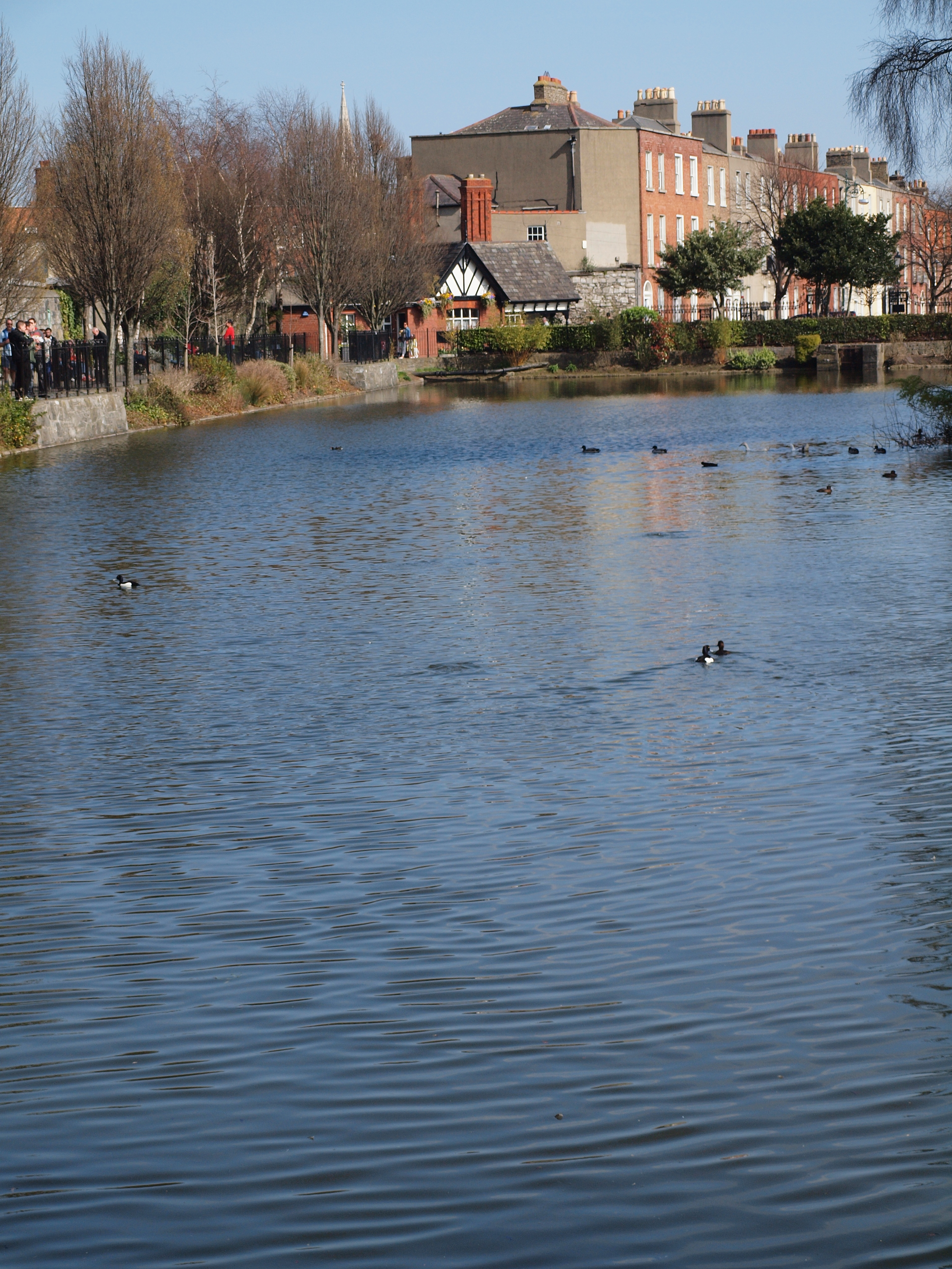 View of the reservoir